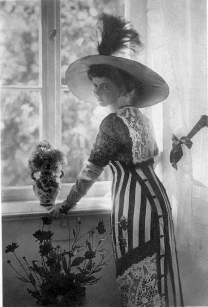 Sophia Charlotte of Oldenburg, wife of prince Eithel Friedrich of Prussia